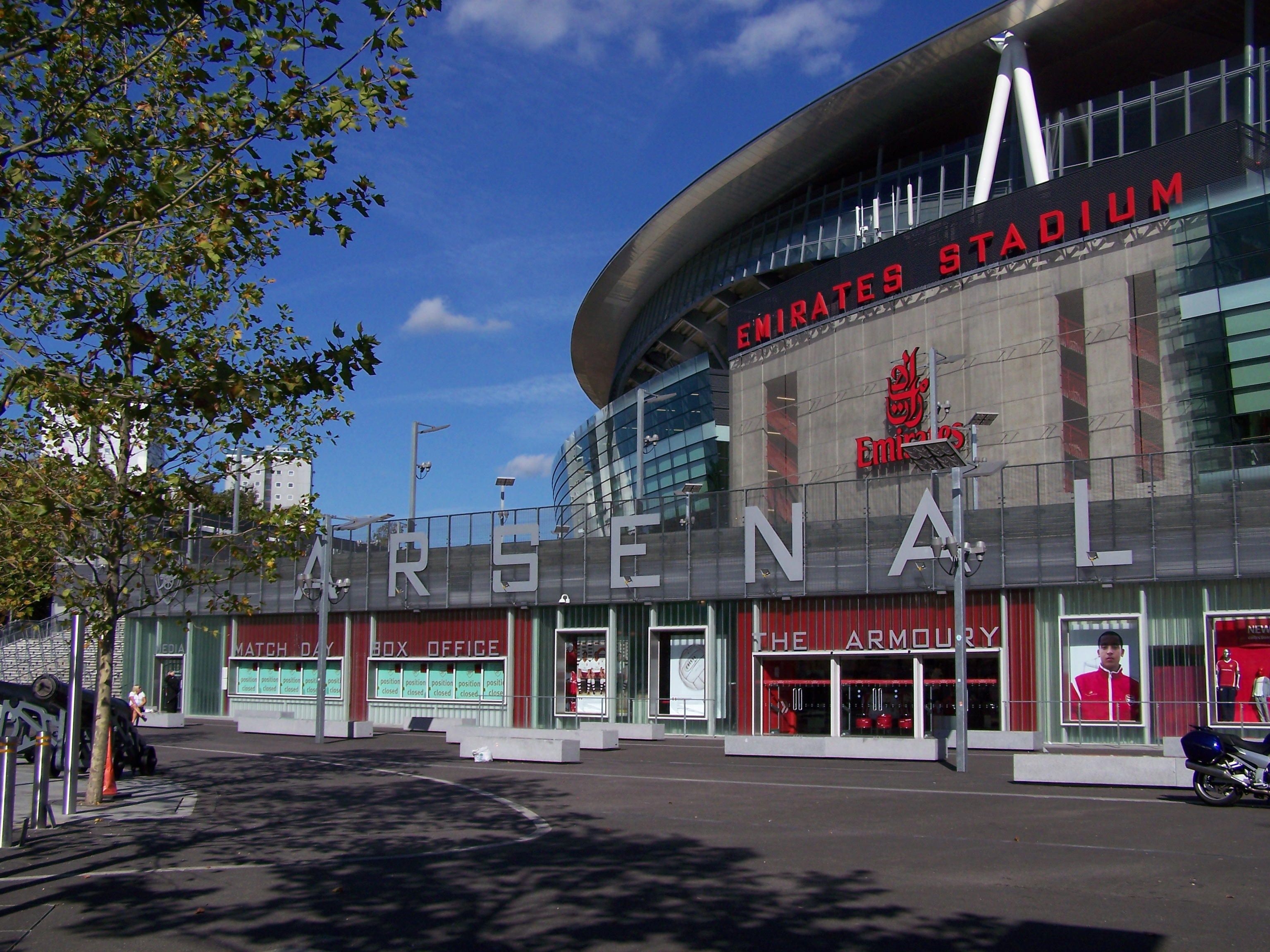 The Armoury